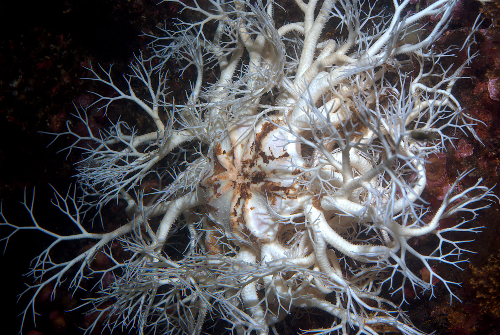 basket star, most likely Gorgonocephalus eucnemis, Telegraph Cove, British Columbia, Canada.